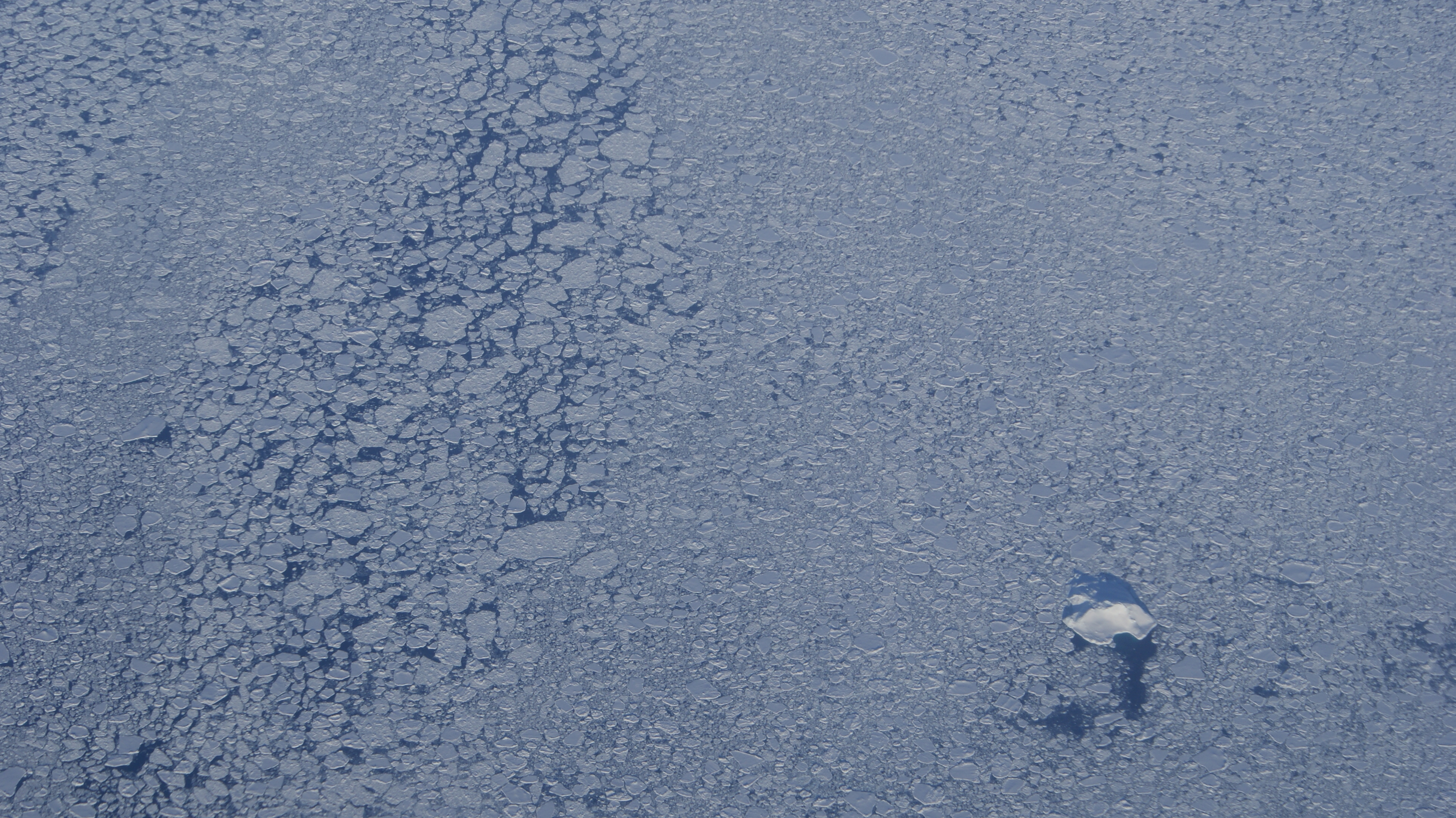 Pack sea ice in Denmark Strait. Aerial view.